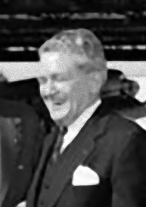 The new United States Ambassador to Australia, Mr William J Sebald, second from right, meeting the Press on his arrival by air at Canberra on June 4, 1957. On Mr Sebald's right is Mr Avery F Peterson, who was charge d'affaires pending the arrival of the new ambassador [photographic image] / photographer, W Pedersen. 1 photographic negative: b&w, acetate